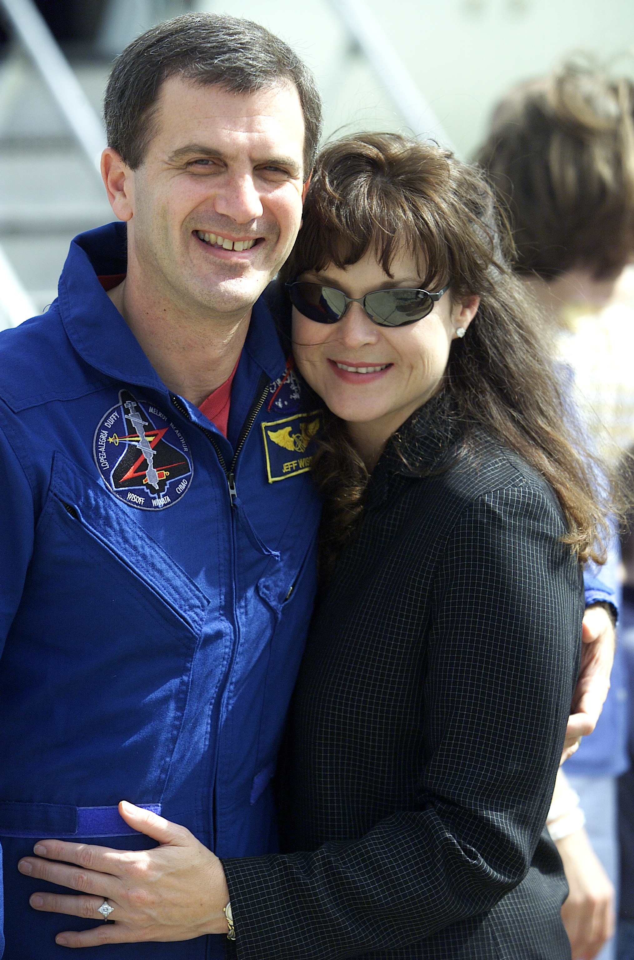 JSC2000-E-27049 (27 October 2000) --- Astronaut Peter J.K. (Jeff) Wisoff greets wife Tamara Jernigan upon the STS-92 crew's return to Ellington Field.